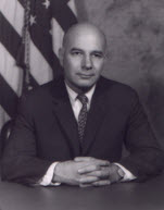 Paul Robert Ignatius